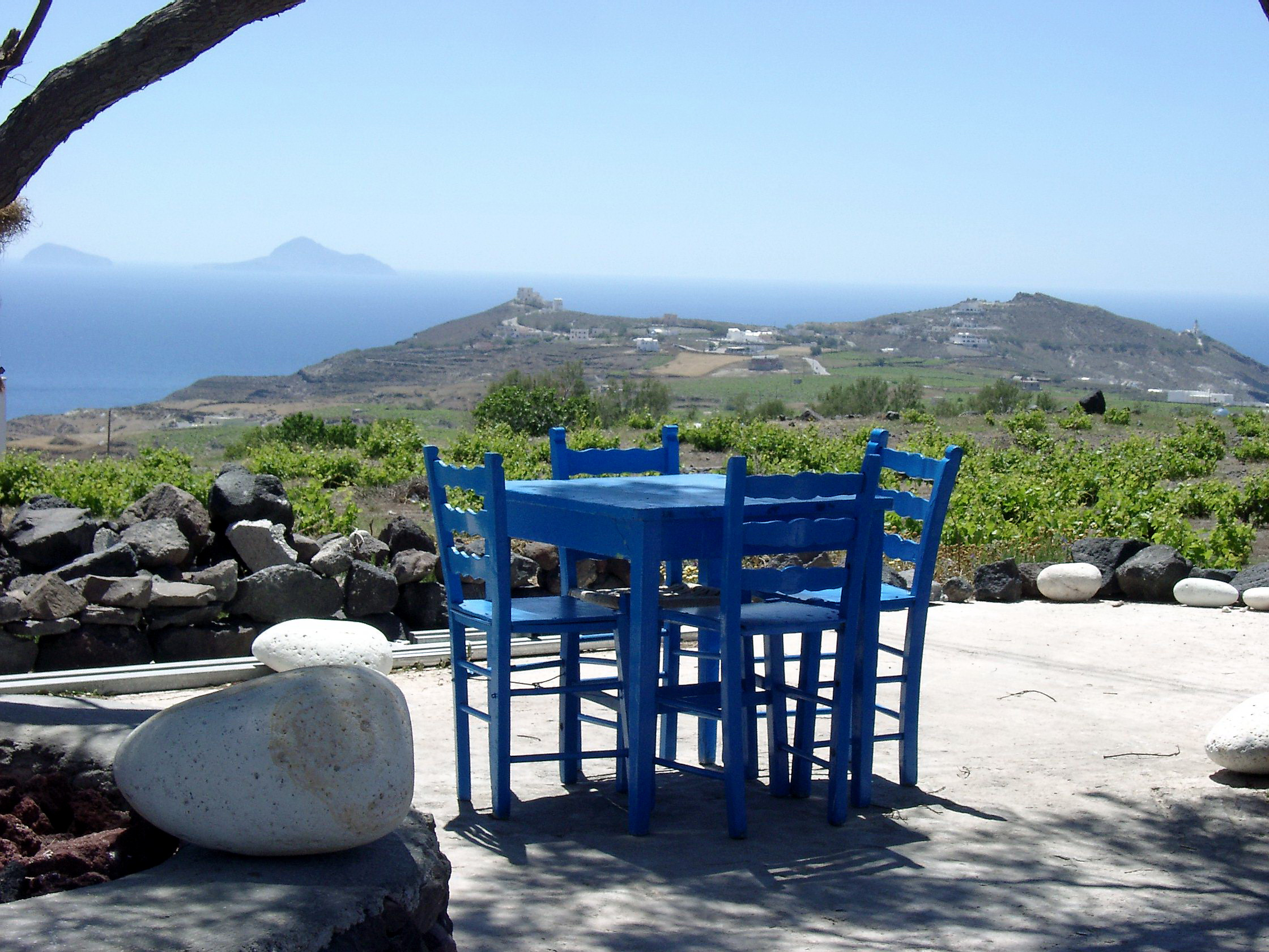 In front of a café in Akrotiri, Santorin